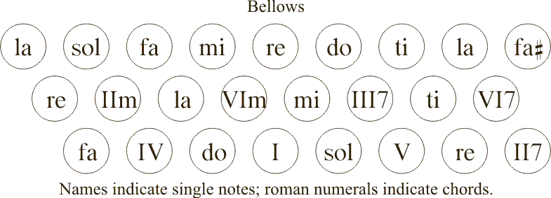 Garmon' bass keyboard.